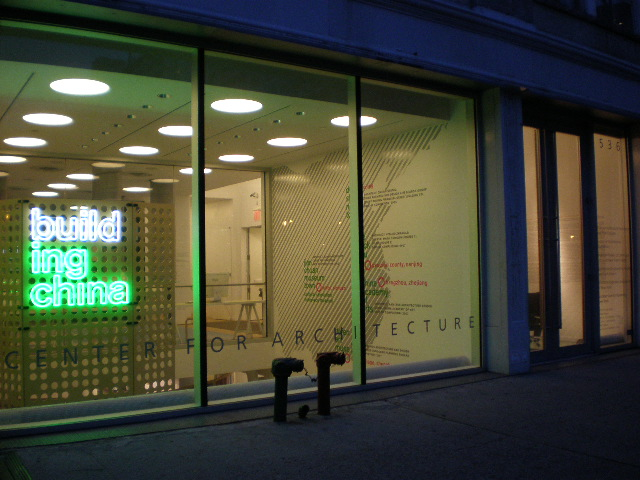 This photo is of Wikipedia Takes Manhattan location code 137, Center for Architecture.